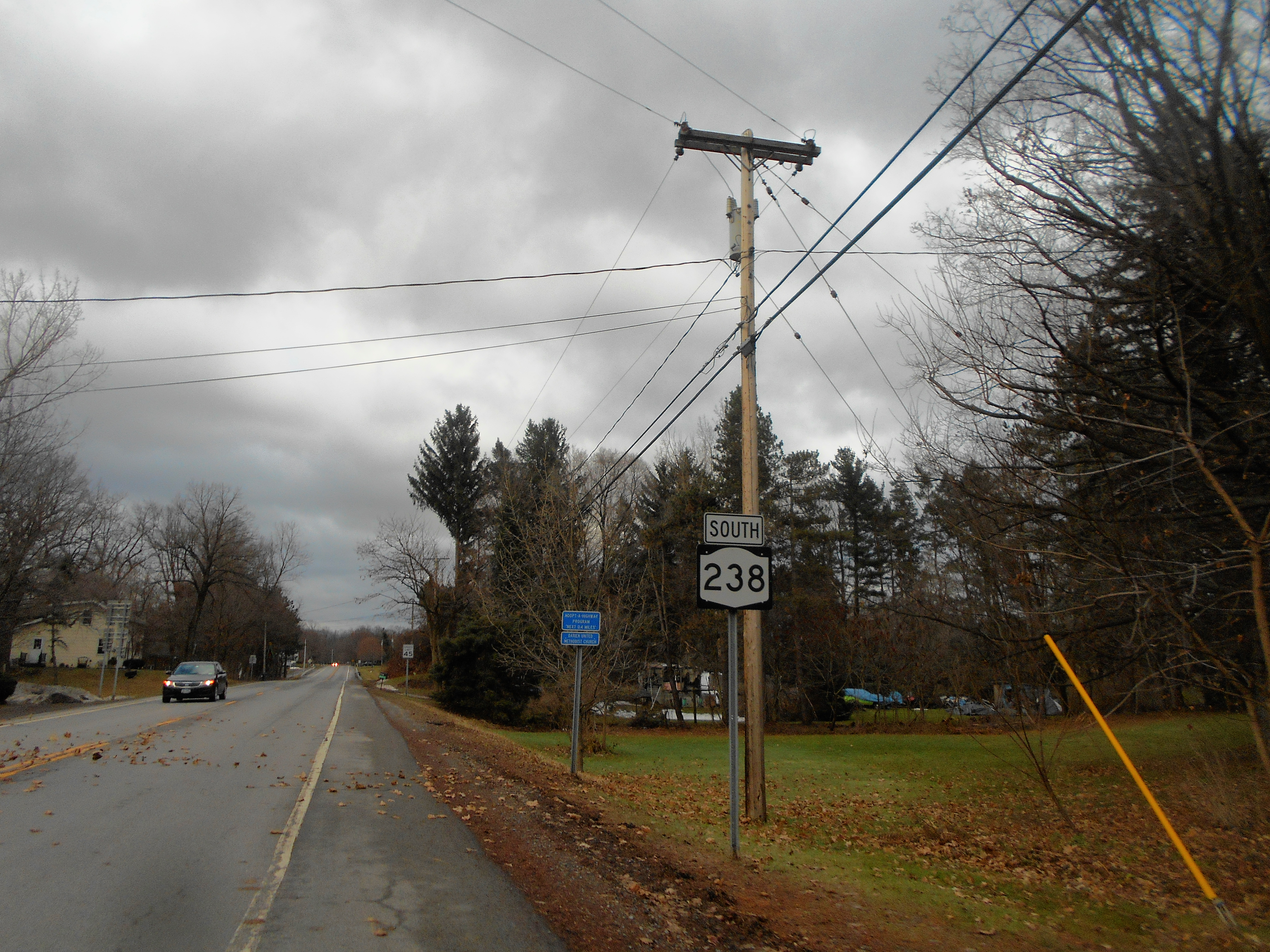 New York State Route 238 southbound in Darien, New York leaving U.S. Route 20.